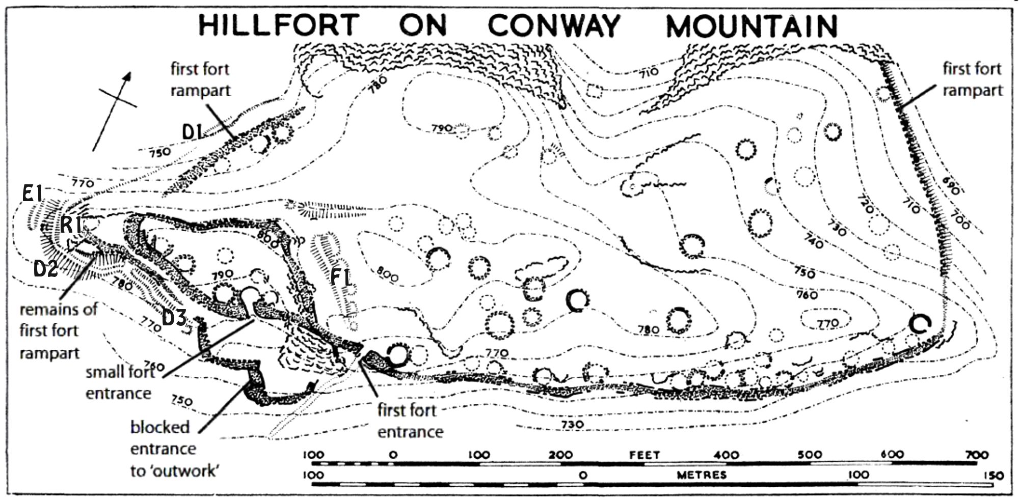 Annotated plan of Caer Seion, showing both periods of the for and noting particular features